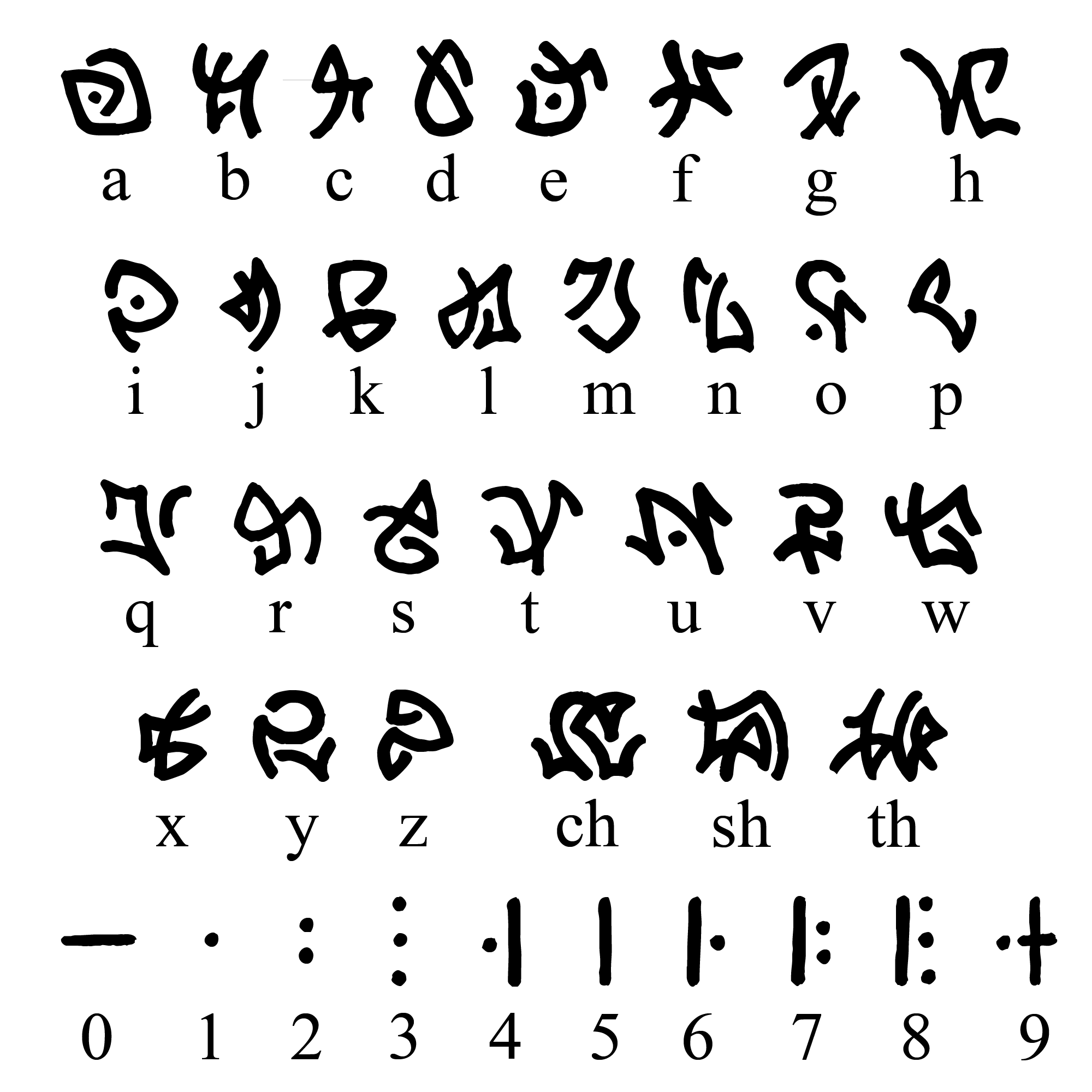 The Atlantean alphabet and numbers.